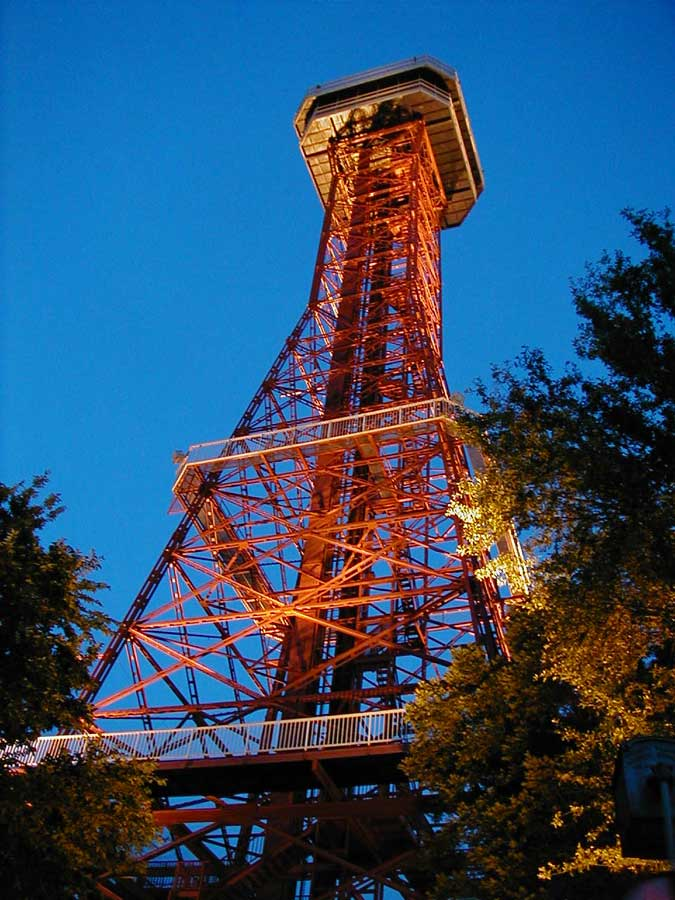 'Oil Derrick' observation tower at Six Flags over Texas amusement park in Arlington, Texas.